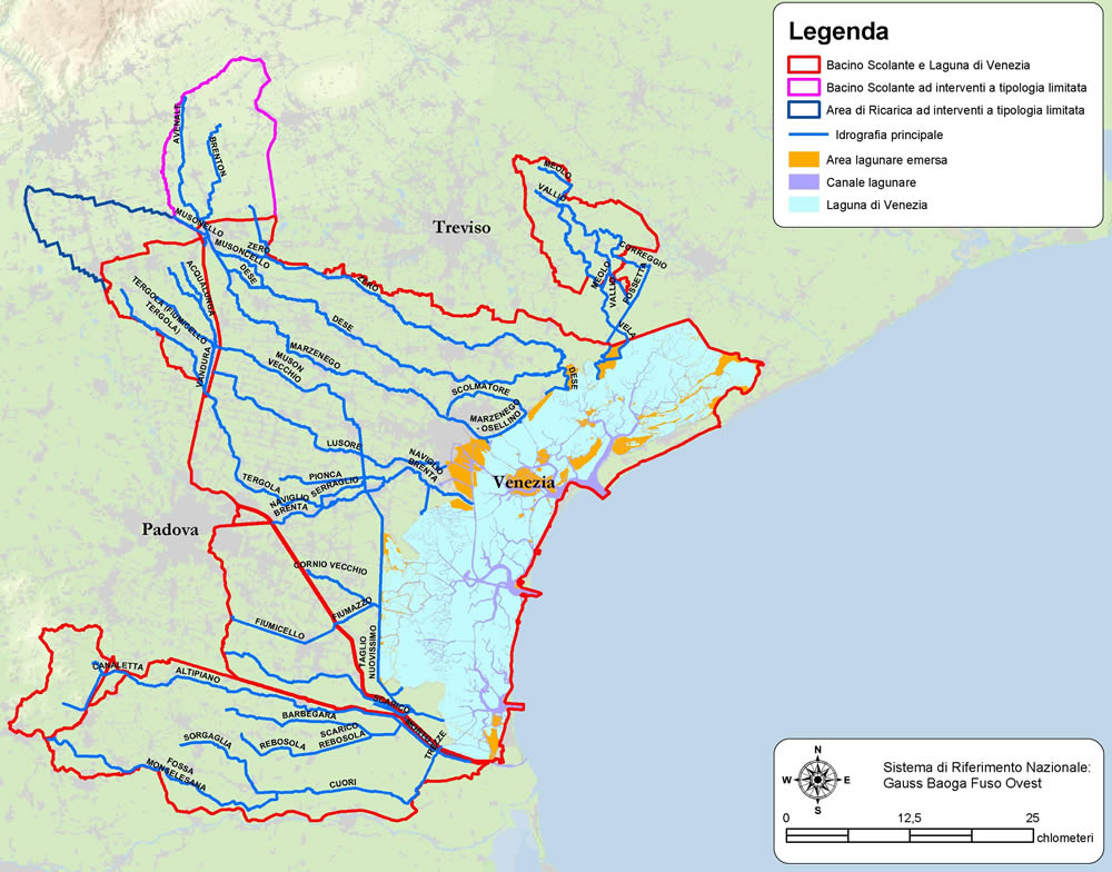 Map of the rivers that flow into the Lagoon of Venice